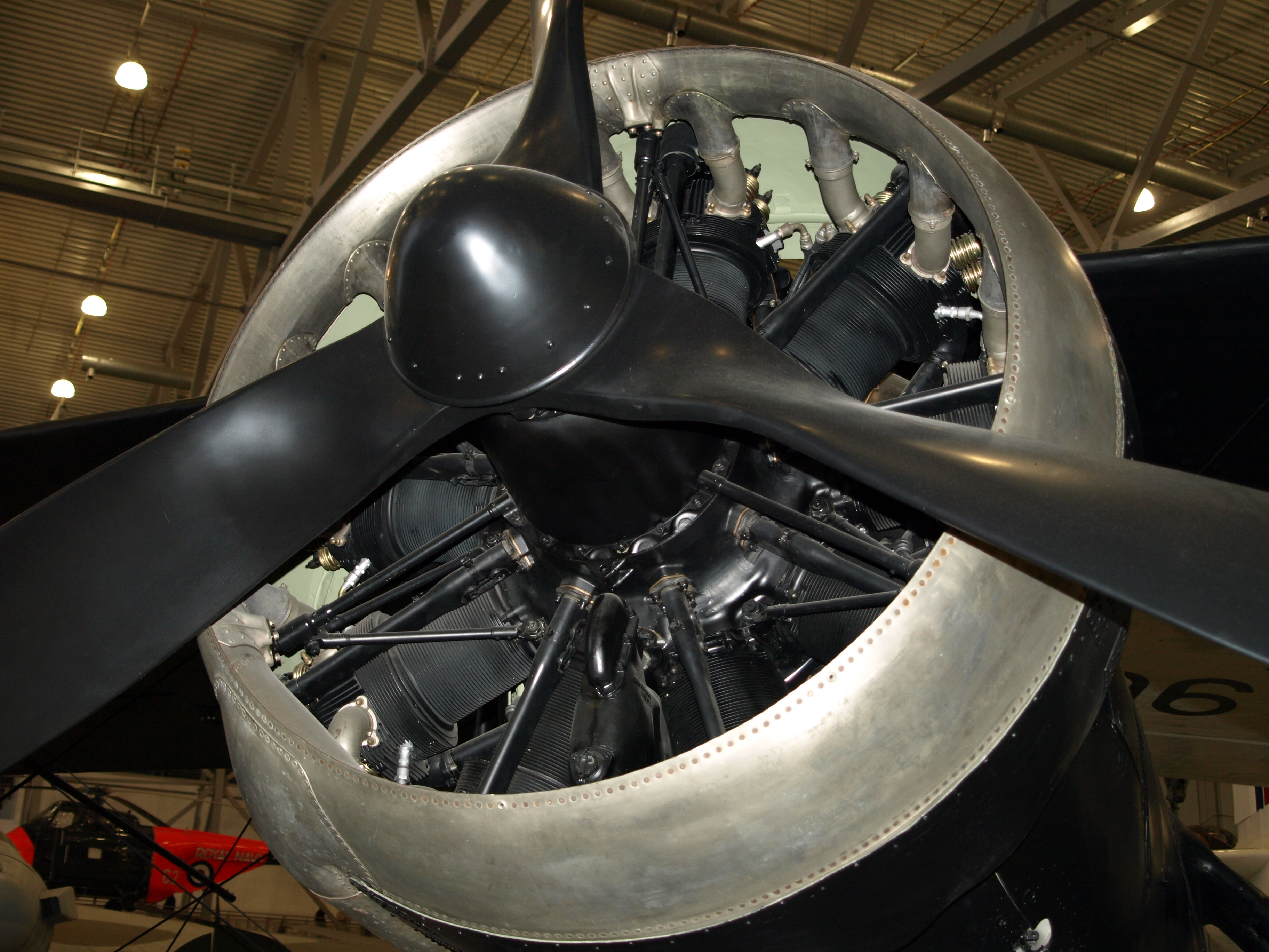 Bristol Pegasus aero engine